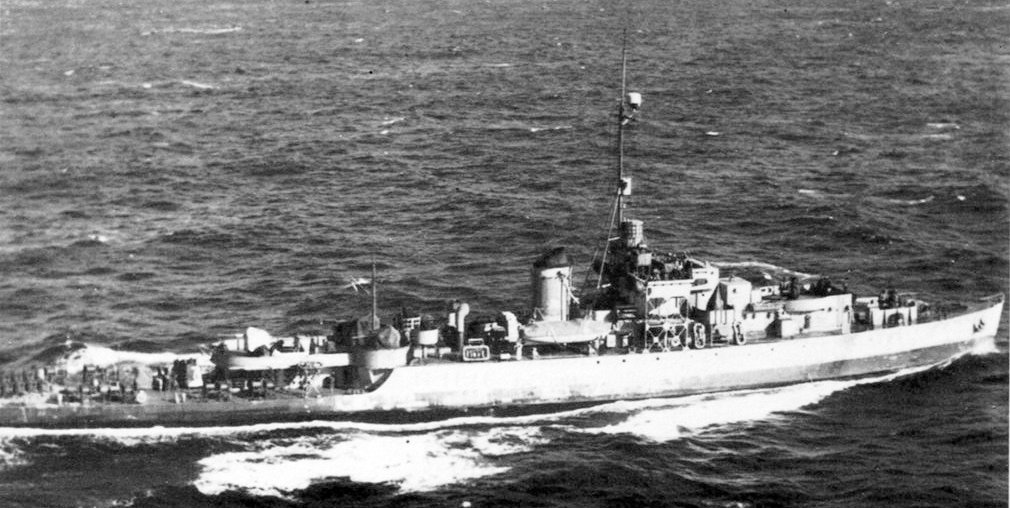 USS Asheville (PF-1) underway.